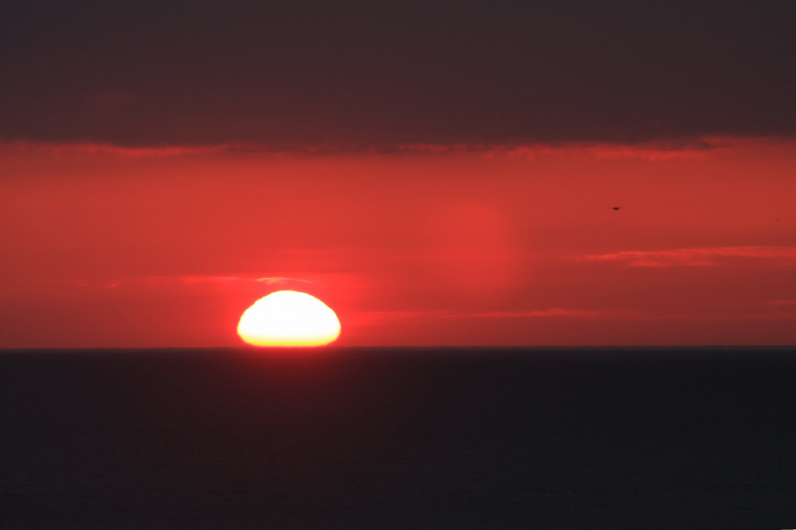 The Earth's atmosphere refracts the sunlight, causing the sun's disk to appear squashed